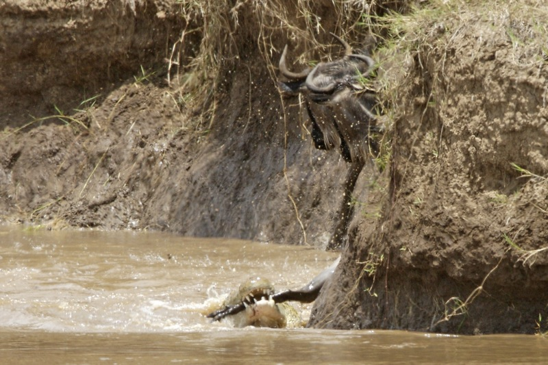 Unfortunately it was not fast enough. the crocodile manage to clamp its jaws on the hindleg. 690V1813